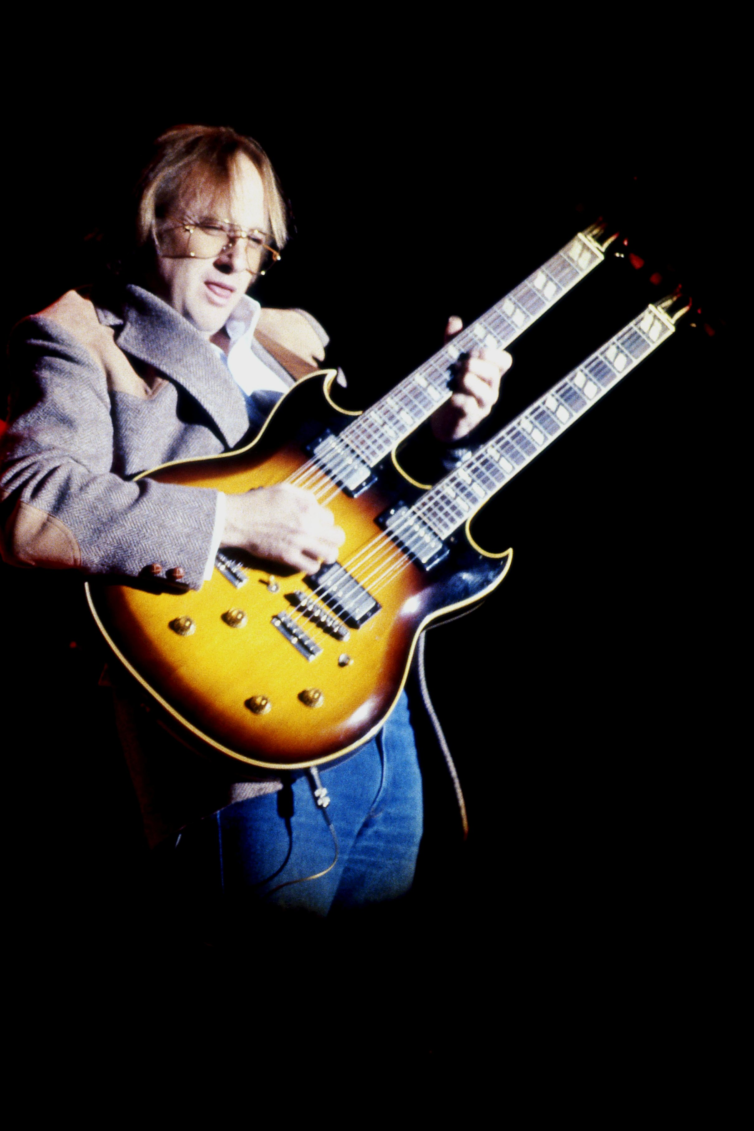 Stephen Stills of "Crosby, Stills and Nash" pictured on June 17 1983 during an open-air festival in the "Georg-Melches-Stadion" (a soccer stadium) in Essen, Germany. Double neck guitar may be: Gibson Double Neck (prototype) 70001 (in 1976 list), or Gibson Double 12 (1958-1962, custom-order twin-necked hollowbody guitar, predecessor of EDS-1275) References Lowell Cauffiel. "Stephen Stills". Guitar Player (January 1976). "Gibson Double Neck (prototype) 70001" Gibson Custom EDS-1275 Double Neck. Gibson Guitar Corporation. "Body: From 1958 to 1962, the Double 12 double necks sported a hollowbody design crafted with carved spruce tops and maple back and sides. The body also consisted of a Florentine double cutaway design which provided easy access to the entire fret range of both necks. In 1962, however, the Double 12 was reintroduced as the EDS-1275 model and featured a solid mahogany body that closely resembled Gibson’s new SG models, along with three-piece maple necks with 20-fret rosewood fingerboards. ..."